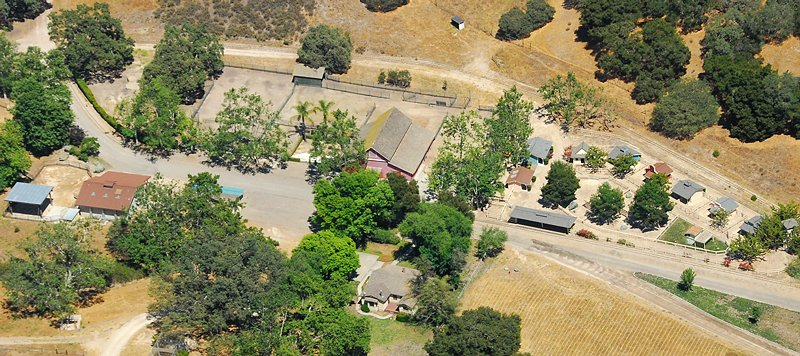 Aerial photo of the private zoo area on Neverland Ranch near Los Olivos, CA. Part of this zoo was built to imitate a frontier town typical of American "western" movies. More and larger aerial photos of the ranch may be found here